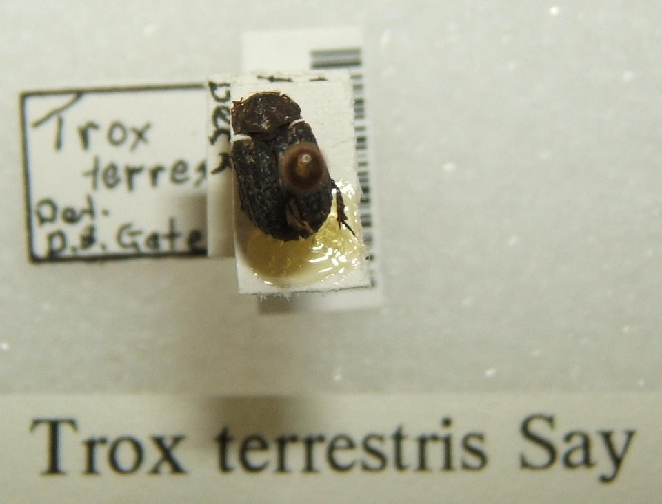 Trox terrestris adult taken by Shawn Hanrahan at the Texas A&M University Insect Collection in College Station, Texas. Cropped version: Trox terrestris sjh.cropped.jpg